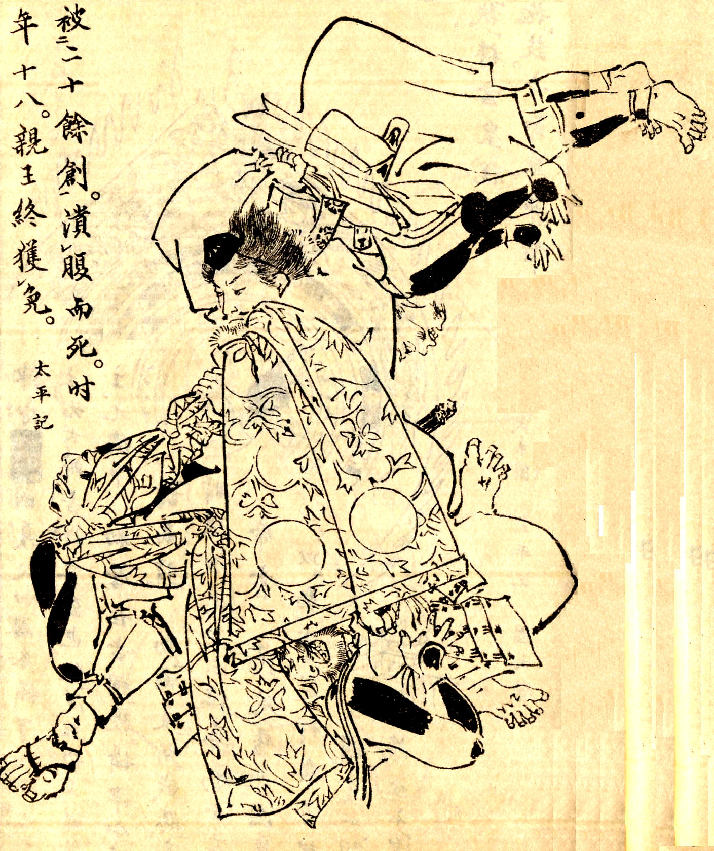 Japanese book "前賢故実"（Zenken-Kojitsu) Kikuchi Yōsai (菊池容斎) published in 1903.3.13